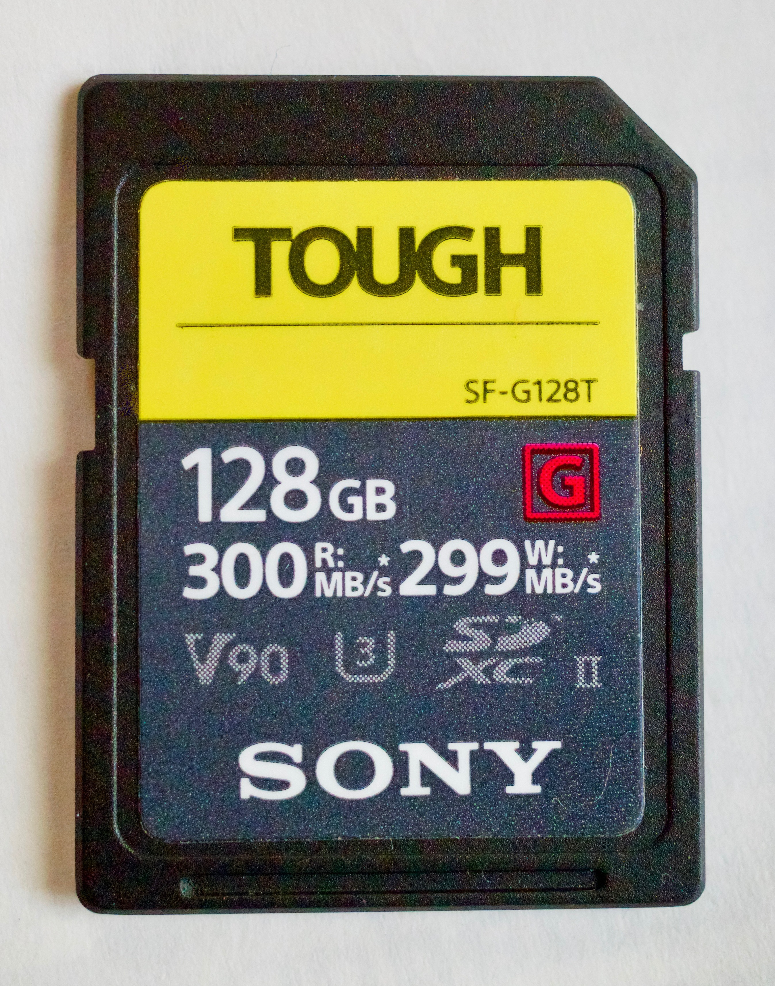 Sony 128GB SF-G Tough Series UHS-II SDXC Memory Card